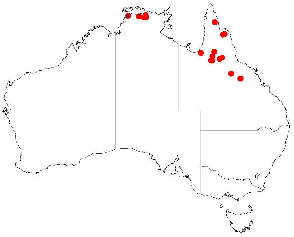 Acacia armitii Occurrence data from Australasia Virtual Herbarium downloaded from on 8 December 2018